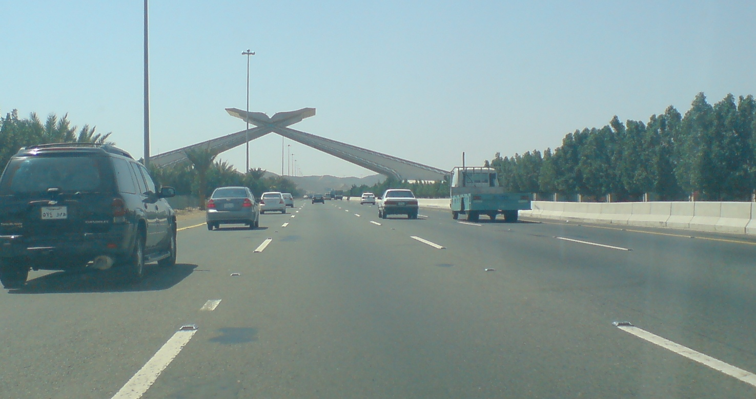 An Entrance of Mecca located on Jeddah Highway